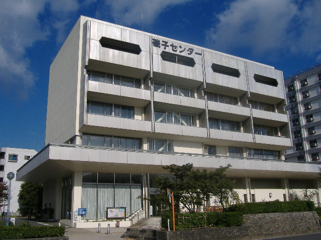 Isogo-center (Yokohama, Japan)